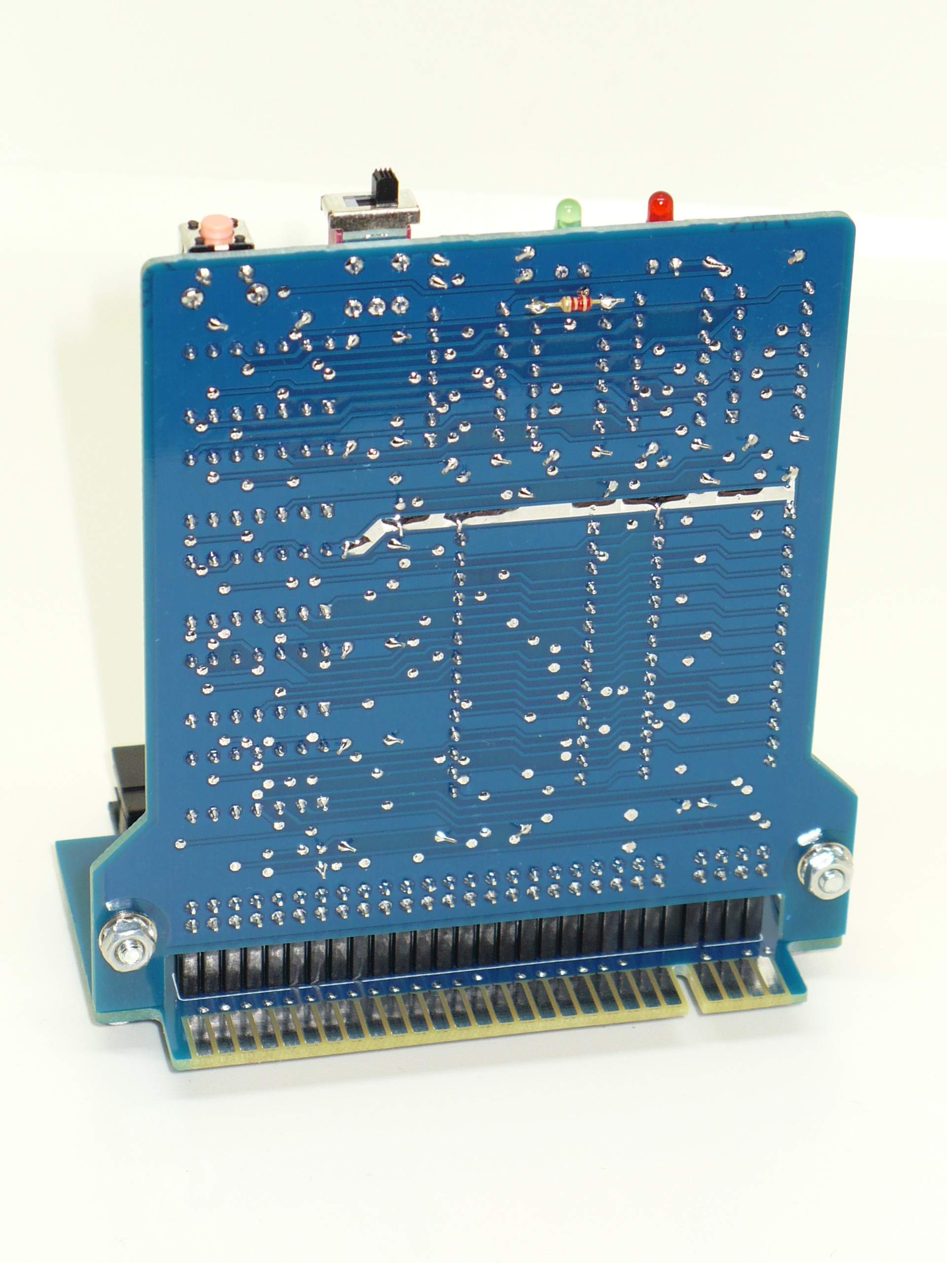 CSS's Multiface 128 BACK